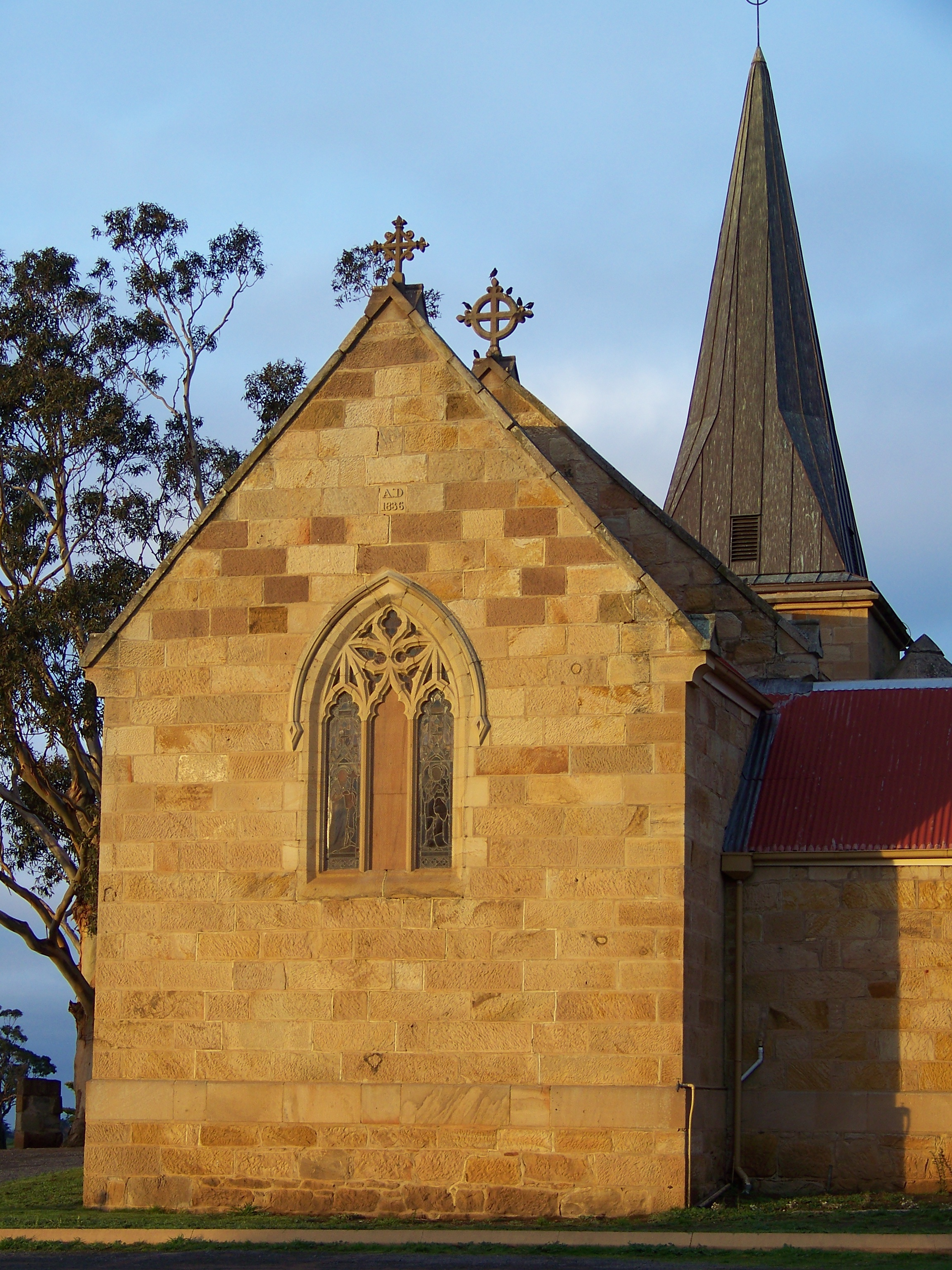 St John's Catholic Church in Richmond, Tasmania